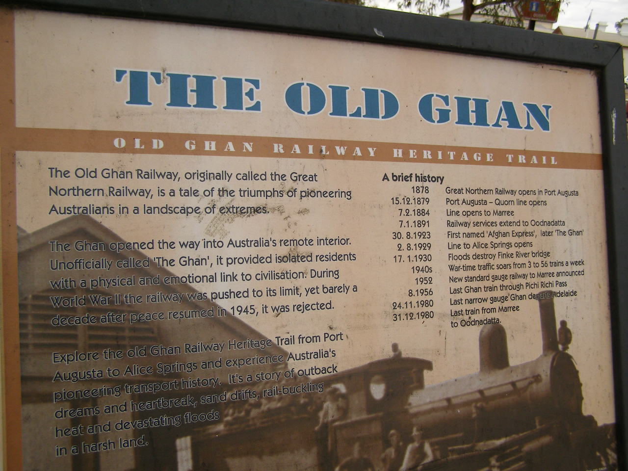 Sign about the Old Ghan railway line at Quorn Railway Station, South Australia